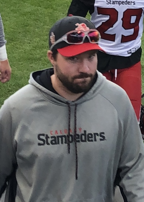 Marc Mueller, 2019 running backs coach for the Calgary Stampeders.